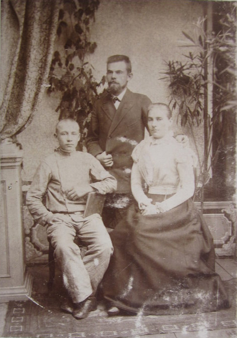 Fedor Buslov, a member of the first Russian State Duma (in the center) with his brother Aantoliy, future member of Uchreditelnoe sobranie, and sister Agraphena